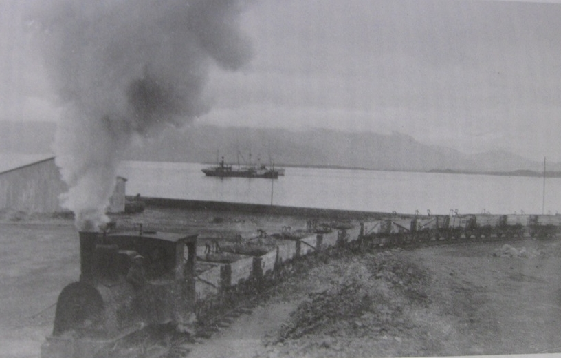 Reykjavik harbour train